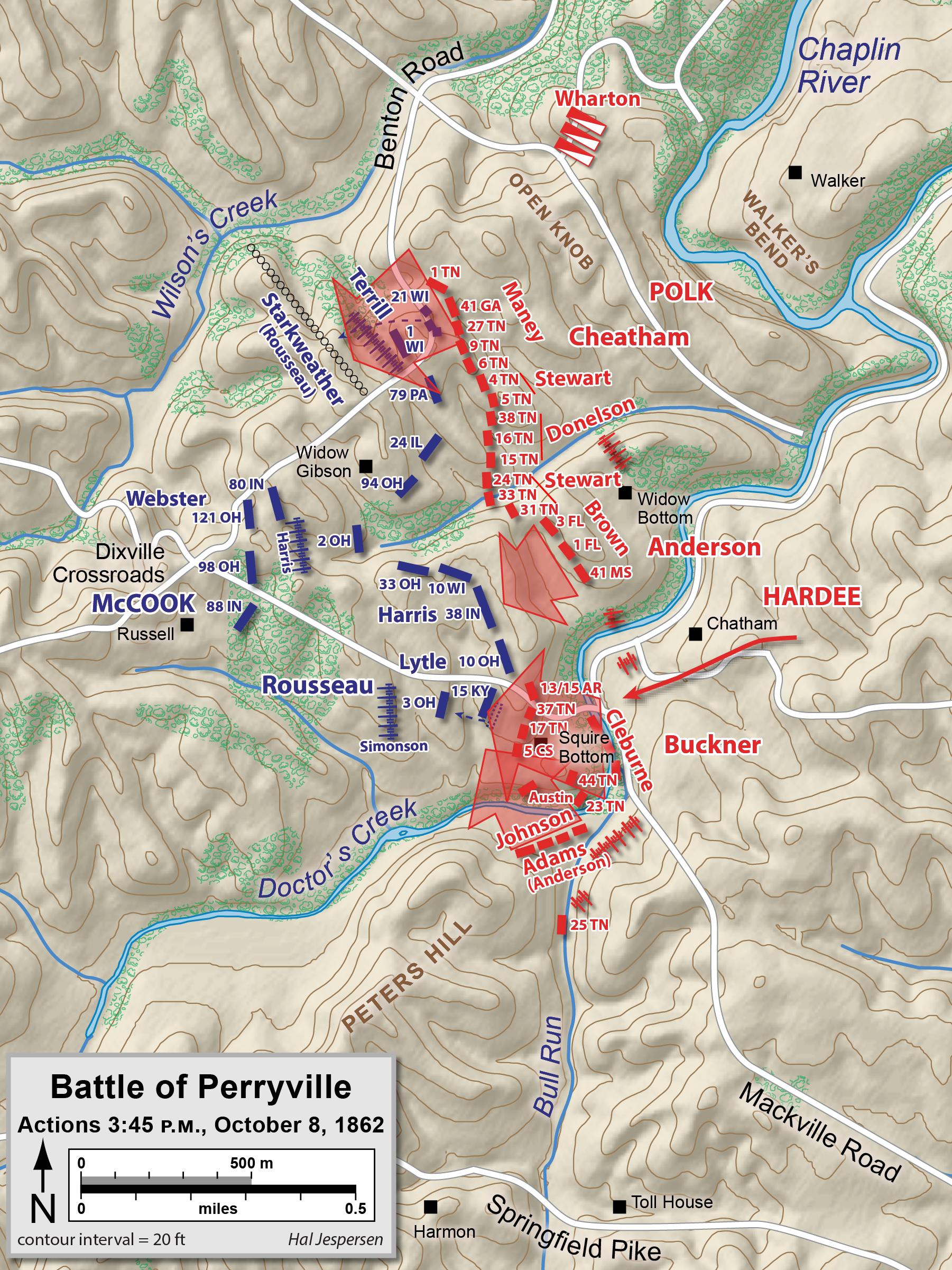 Map of the Battle of Perryville of the American Civil War